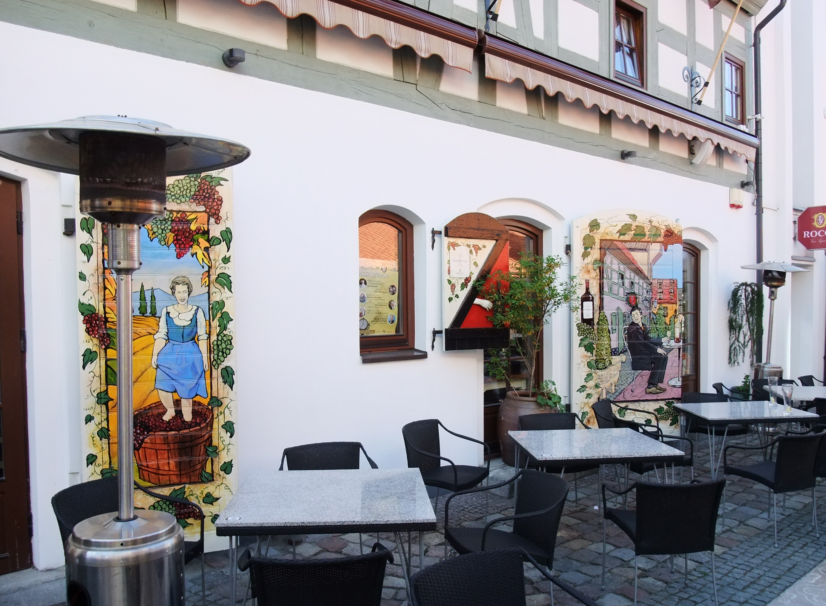 Painted house in Klaipeda, Lithuania